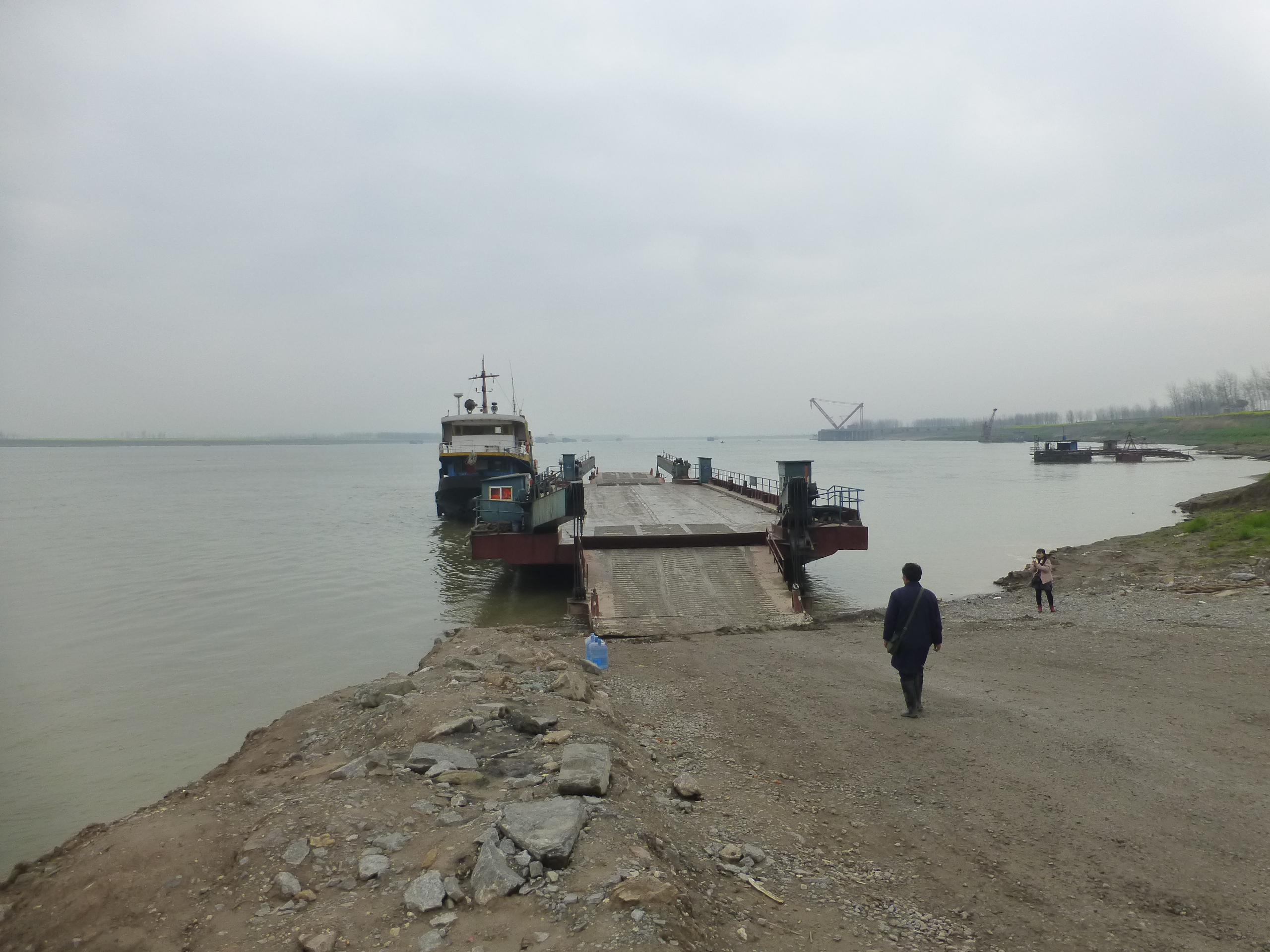 A view from a ferry crossing the Yangtze between Panjiawan Town (Jiayu County) and Yanwo Town (Honghu City), in Hubei Province